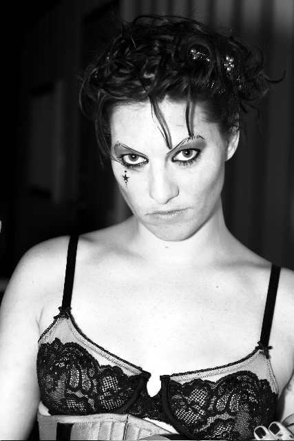 Photo of Amanda Palmer at 8/11/08 NYC Spiegeltent show.